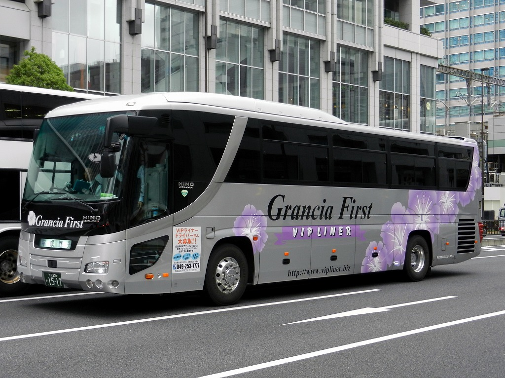 Heisei enterprise Hino S'elega(LKG-RU1ESBA),Grancia First